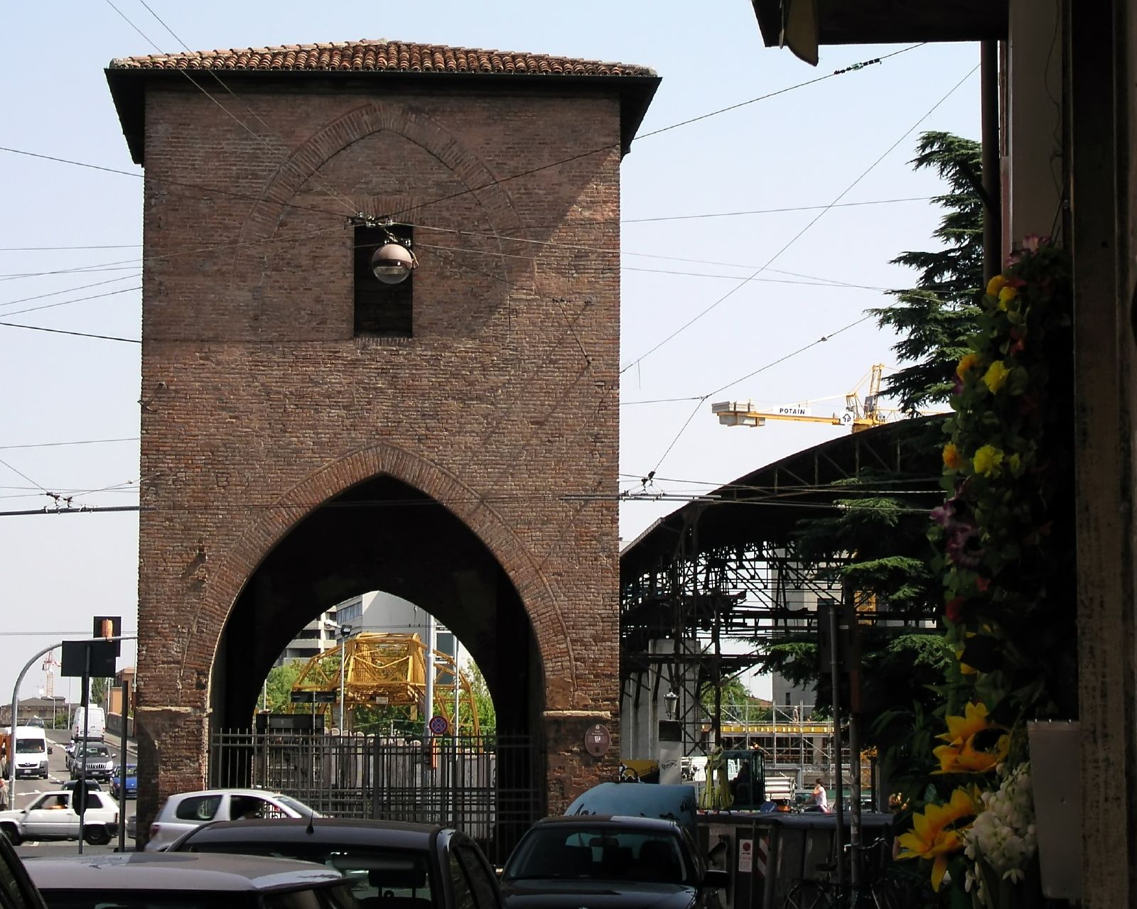 Bologna City centre - Mascarella gate (13th century)